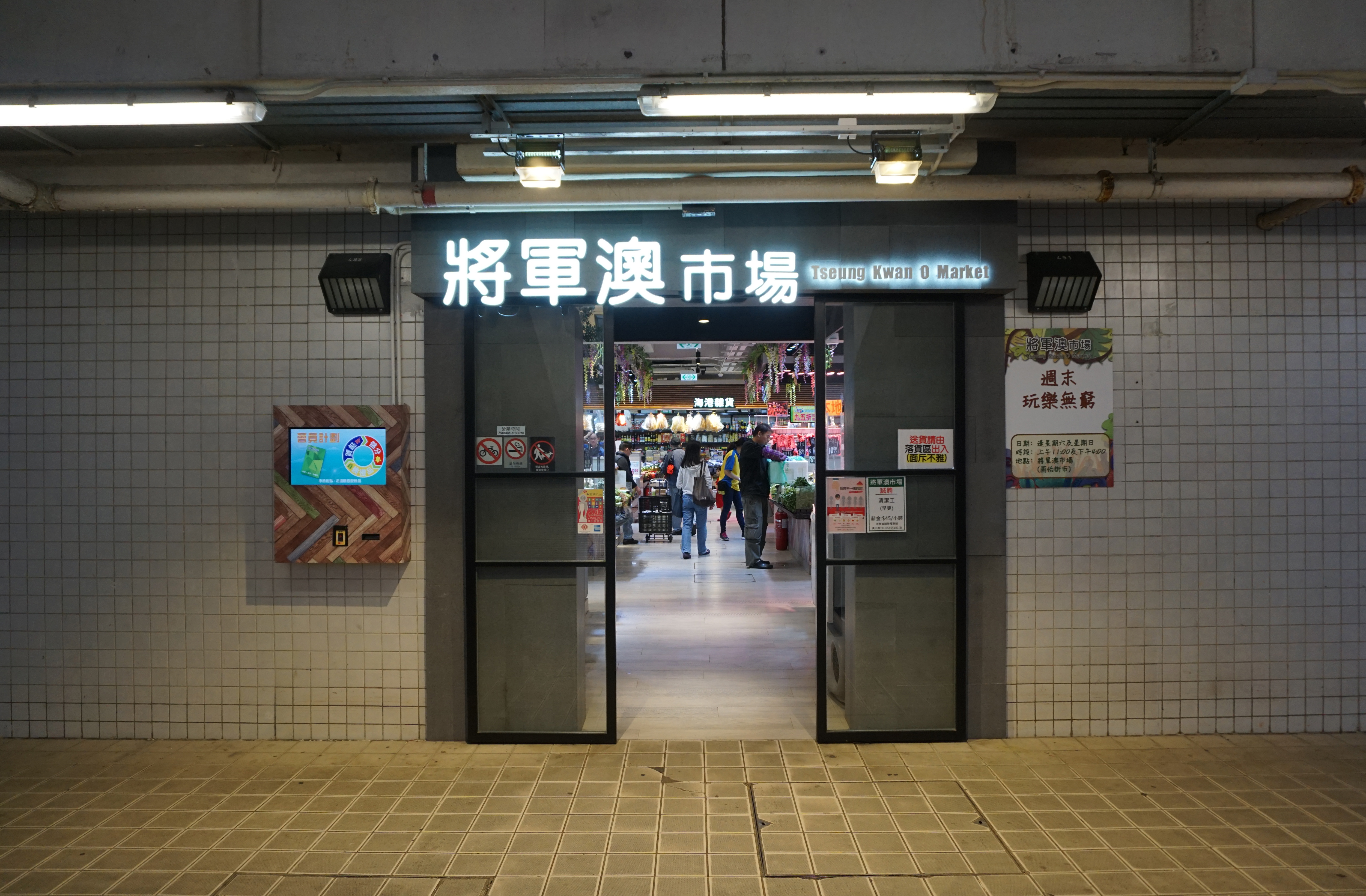 Tseung Kwan O Market in Po Lam, Hong Kong.